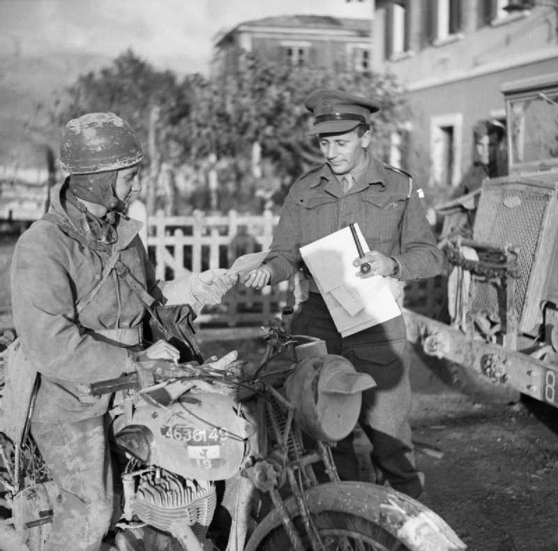 The British Army in Italy 1943 A motorcycle despatch rider hands a message to an officer of the Bedfordshire and Hertfordshire Regiment on the Isernia front, 20 November 1943.